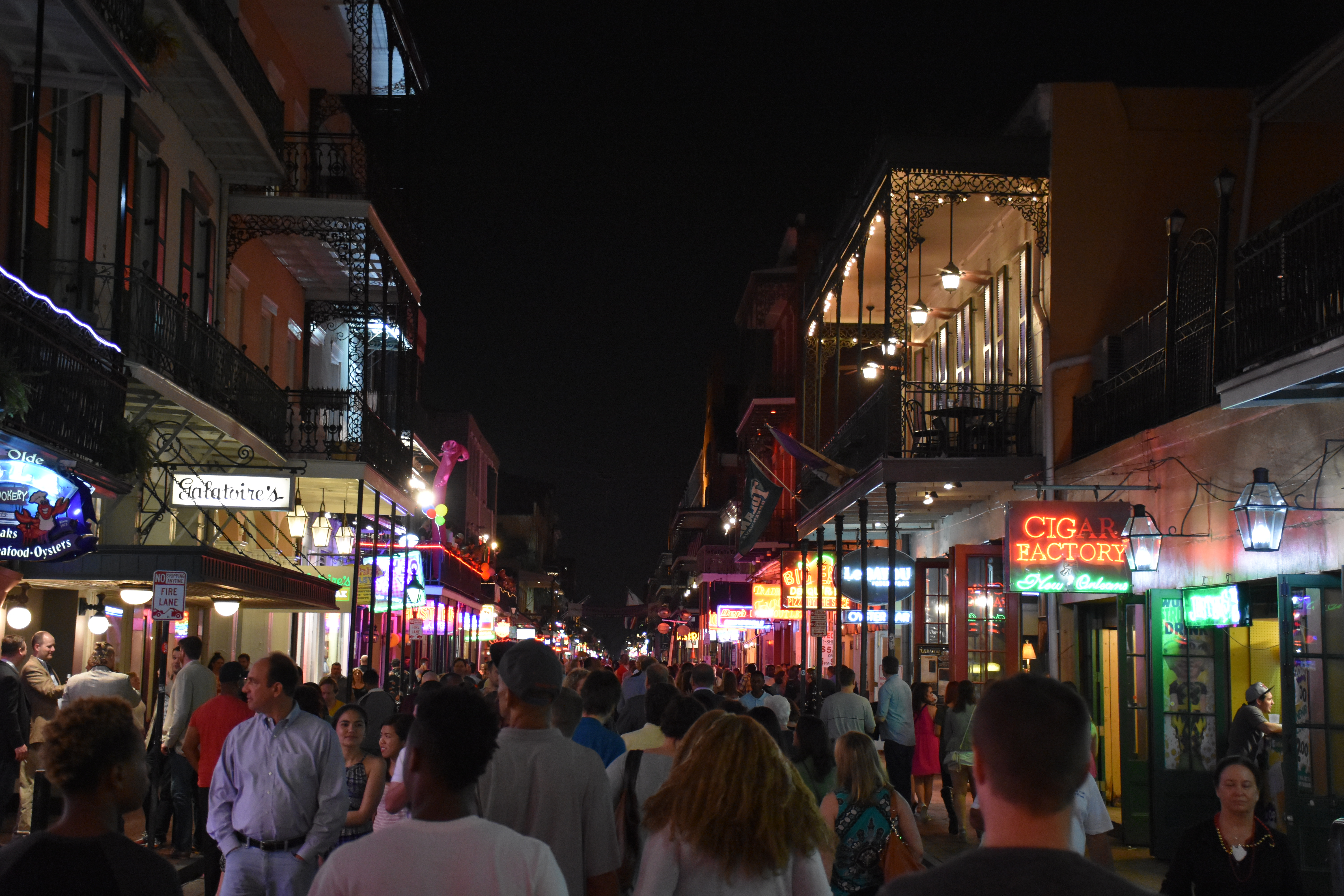 Bourbon Street, New Orleans at night in April 2015